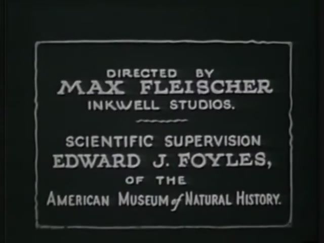 Evolution, 1925 film by Max and Dave Fleischer, credit screen